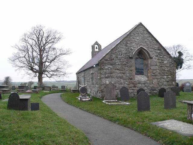 St. Caian's Church, Tregaian, Anglesey. A view of St. Caian's church, Tregaian, Near Capel Coch, Anglesey.